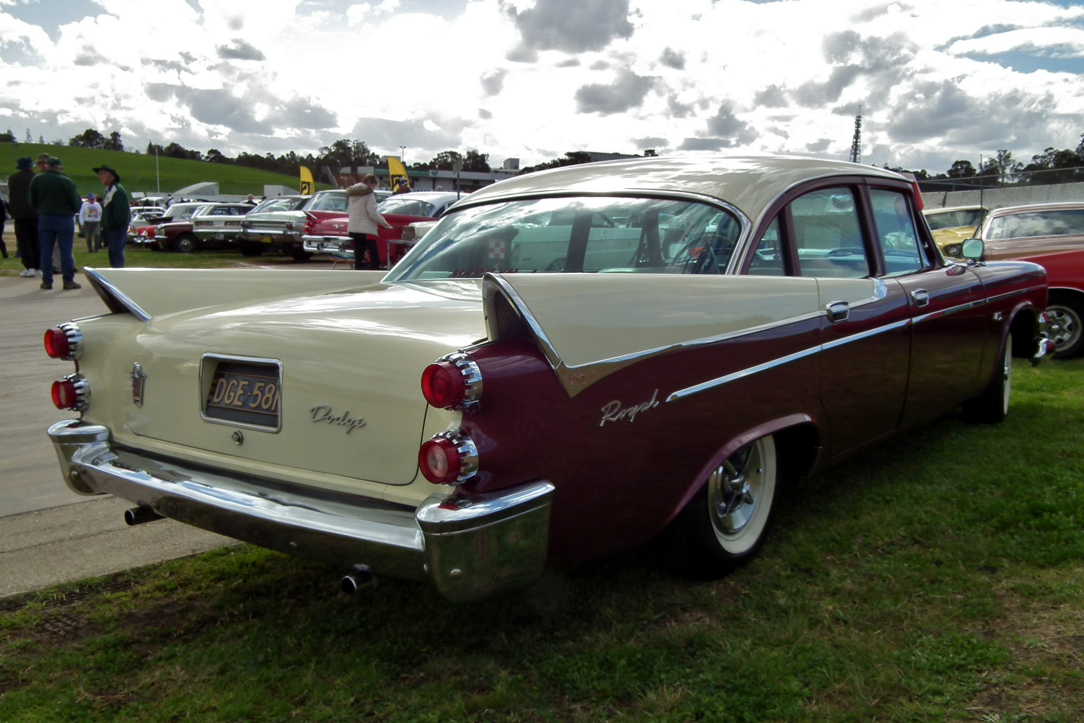 1958 Dodge Royal sedan. Taken at Shannon's Eastern Creek Classic 2011, held at Eastern Creek Raceway Sydney.